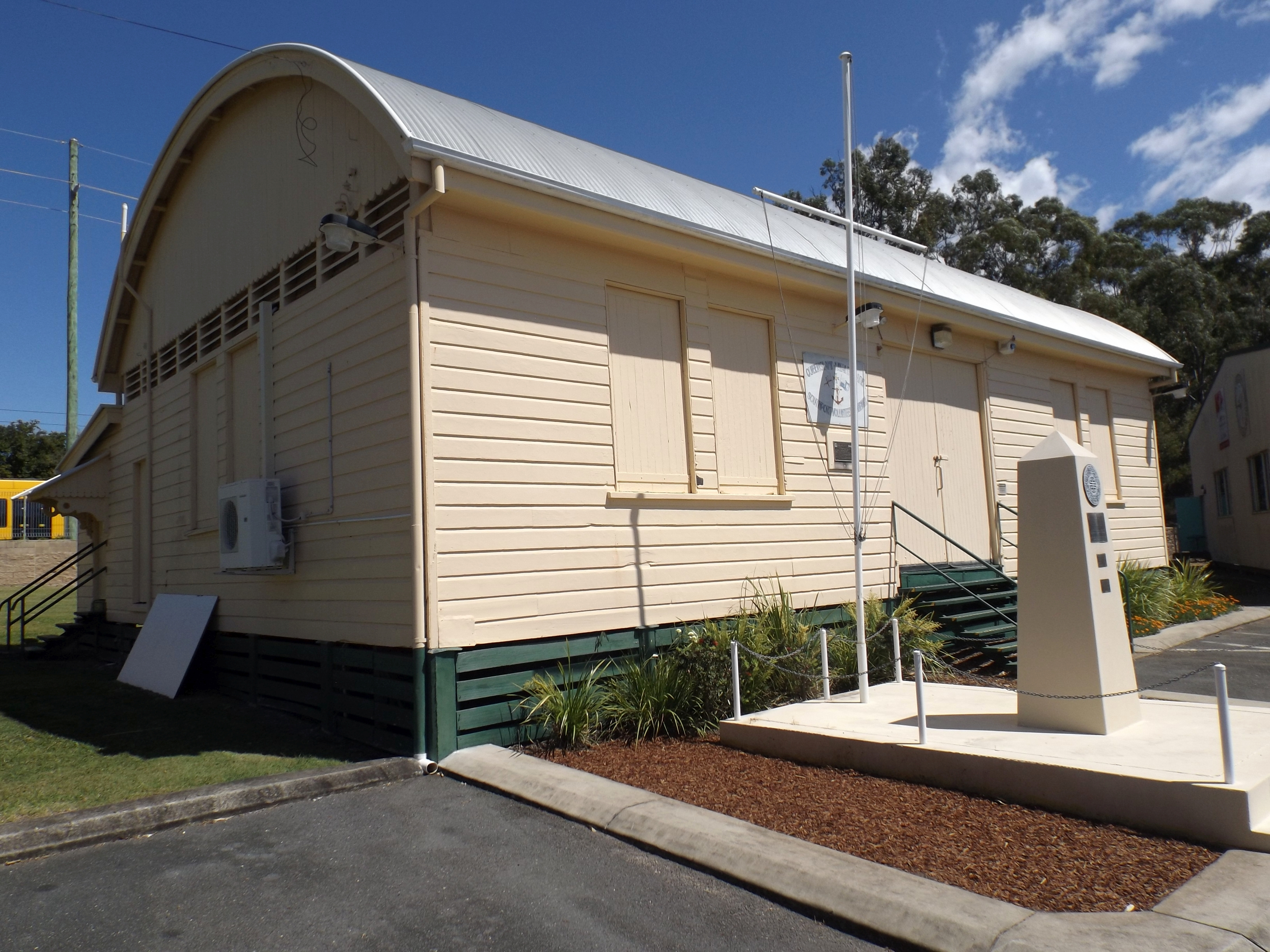 Photo of the Southport Drill Hall in Southport, Gold Coast City, Queensland, Australia.